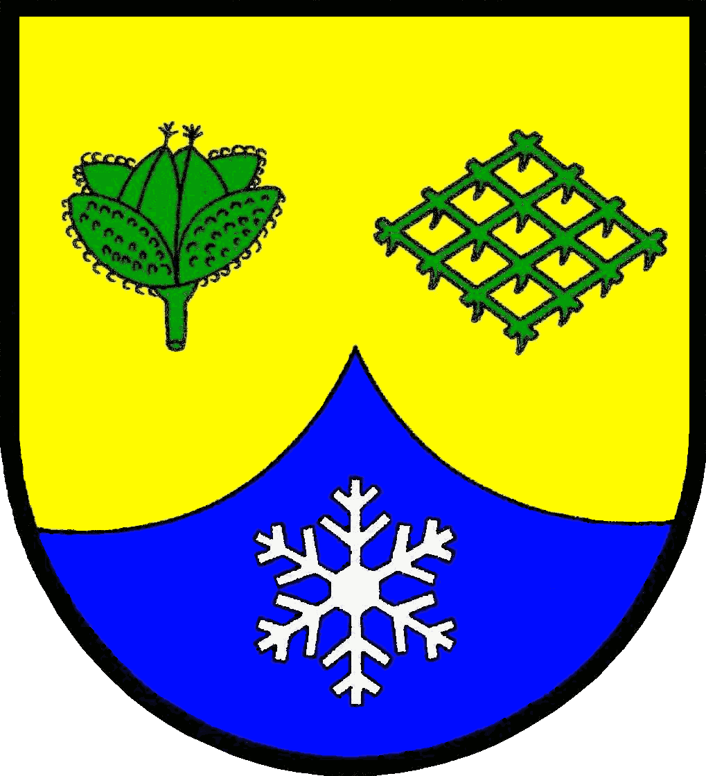 Coat of arms of the municipality Böxlund in Schleswig-Holstein, Germany